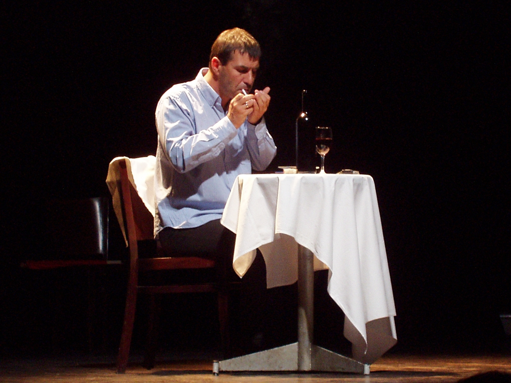 “Dreadnoughts”, a play by Eugeny Grishkovets. Jerusalem, Israel.